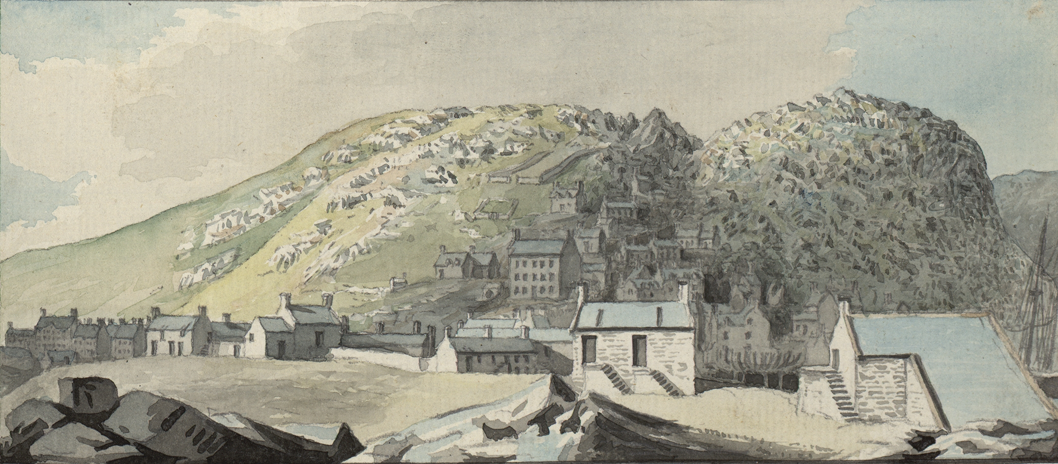 An image from a set of 8 extra-illustrated volumes of A tour in Wales by Thomas Pennant (1726-1798) that chronicle the three journeys he made through Wales between 1773 and 1776. These volumes are unique because they were compiled for Pennant's own library at Downing. This edition was produced in 1781. The volumes include a number of original drawings by Moses Griffiths, Ingleby and other well known artists of the period. Thomas Pennant (1726-1798)